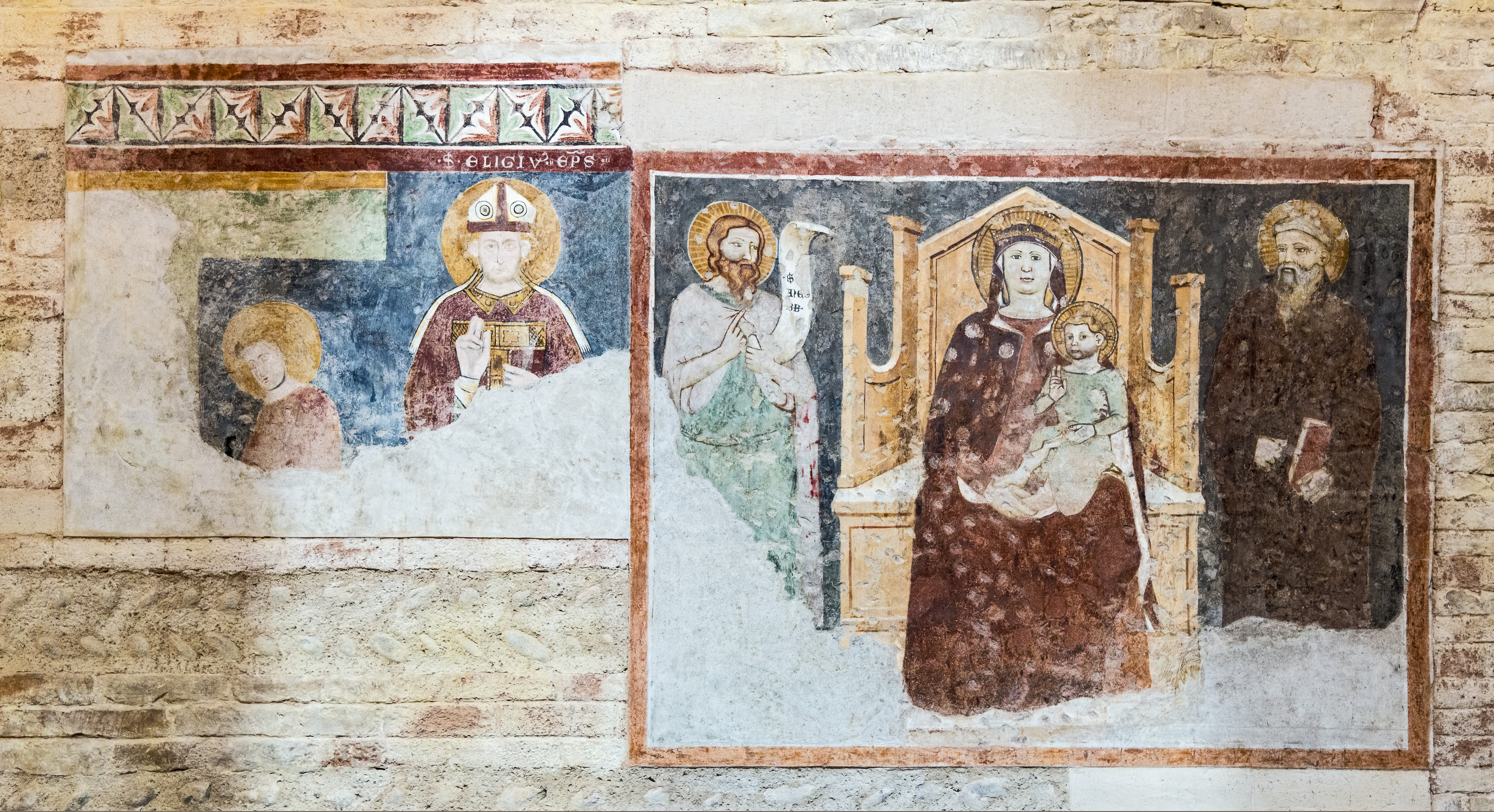 San Giovanni in Fonte - Old church included in the complex of the Verona Cathedral - Romanesque frescos - Madonna and child, thirteenth century.